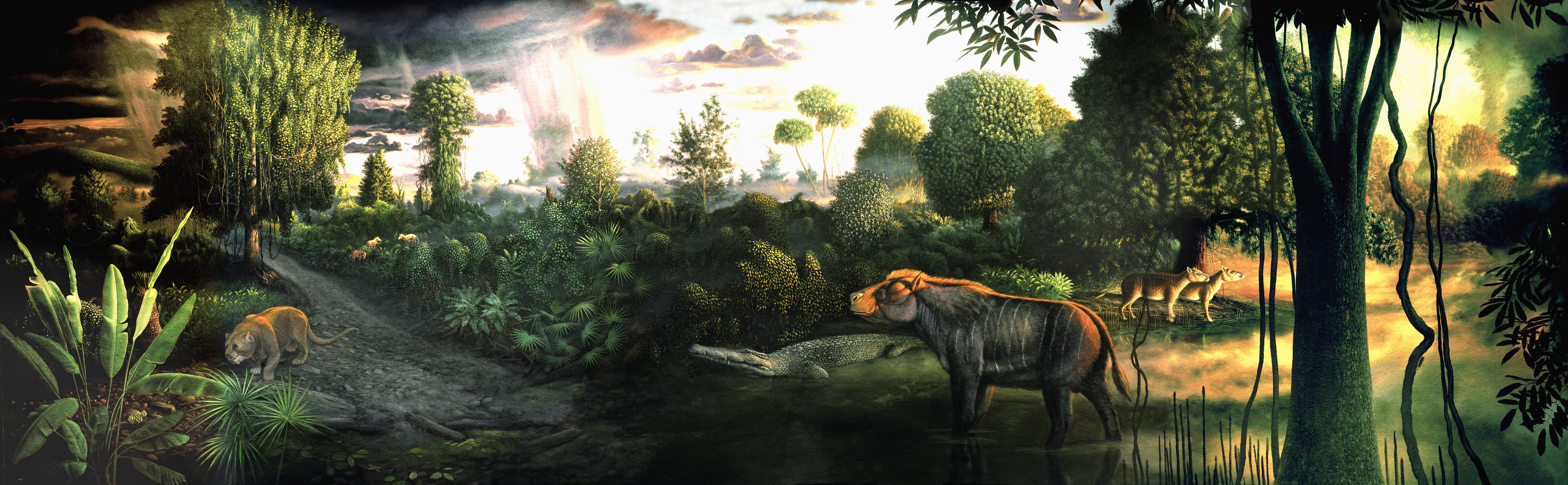 This artist's rendition of the Eocene Clarno Nut Beds includes the following taxa: Cercidiphyllum (tree) Ensete (banana plant) Sabalites (extinct fan palm) Patriofelis (cat-like creodont, the size of a modern panther) Macginicarpa (sycamore) Orohippus (early horse) Dioon (cycad) Cornus (flowering dogwood) Juglans (walnuts) Pinus (pine tree) Pristichampsus sp. (3 m long crocodile) Ictalurus cf. (freshwater catfishes) Telmatherium (1.25m brontothere) Castanea (chestnut) Magnolia (magnolia tree) Hyrachyus (‘running rhino’) Lauraceae (laurel tree) Cicadidae on Vitis (cicada on grapevine) Meliosma (aguacatillo)